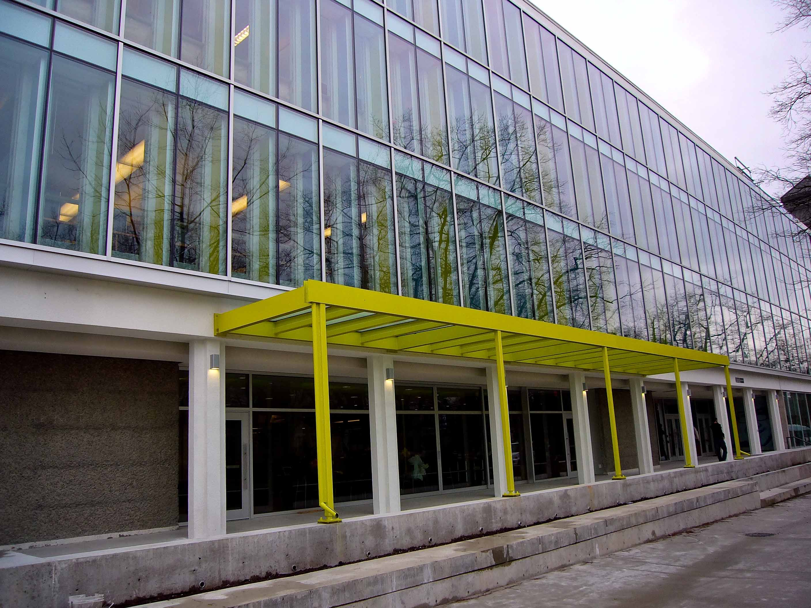 the new sauder school of business building at UBC